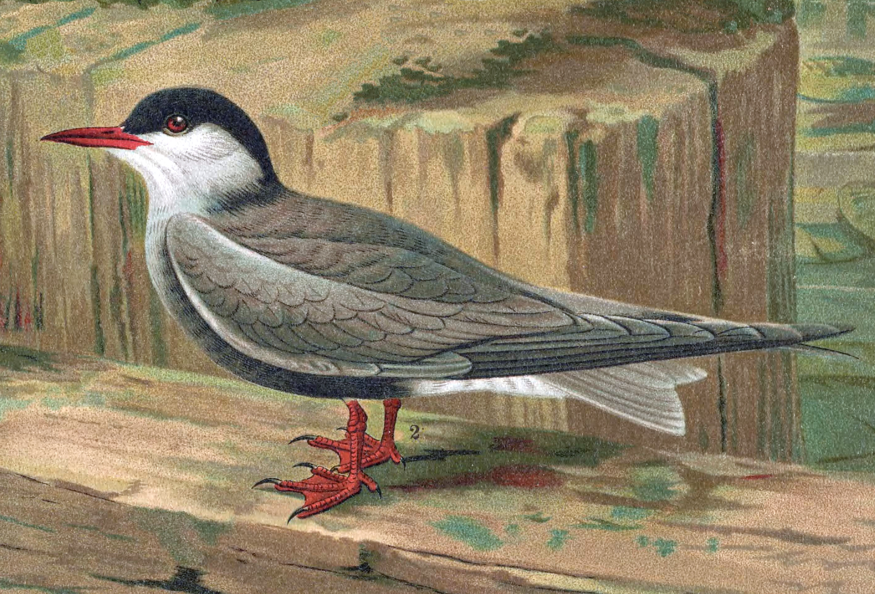 Whiskered Tern Chlidonias hybridus from 1905 German enc